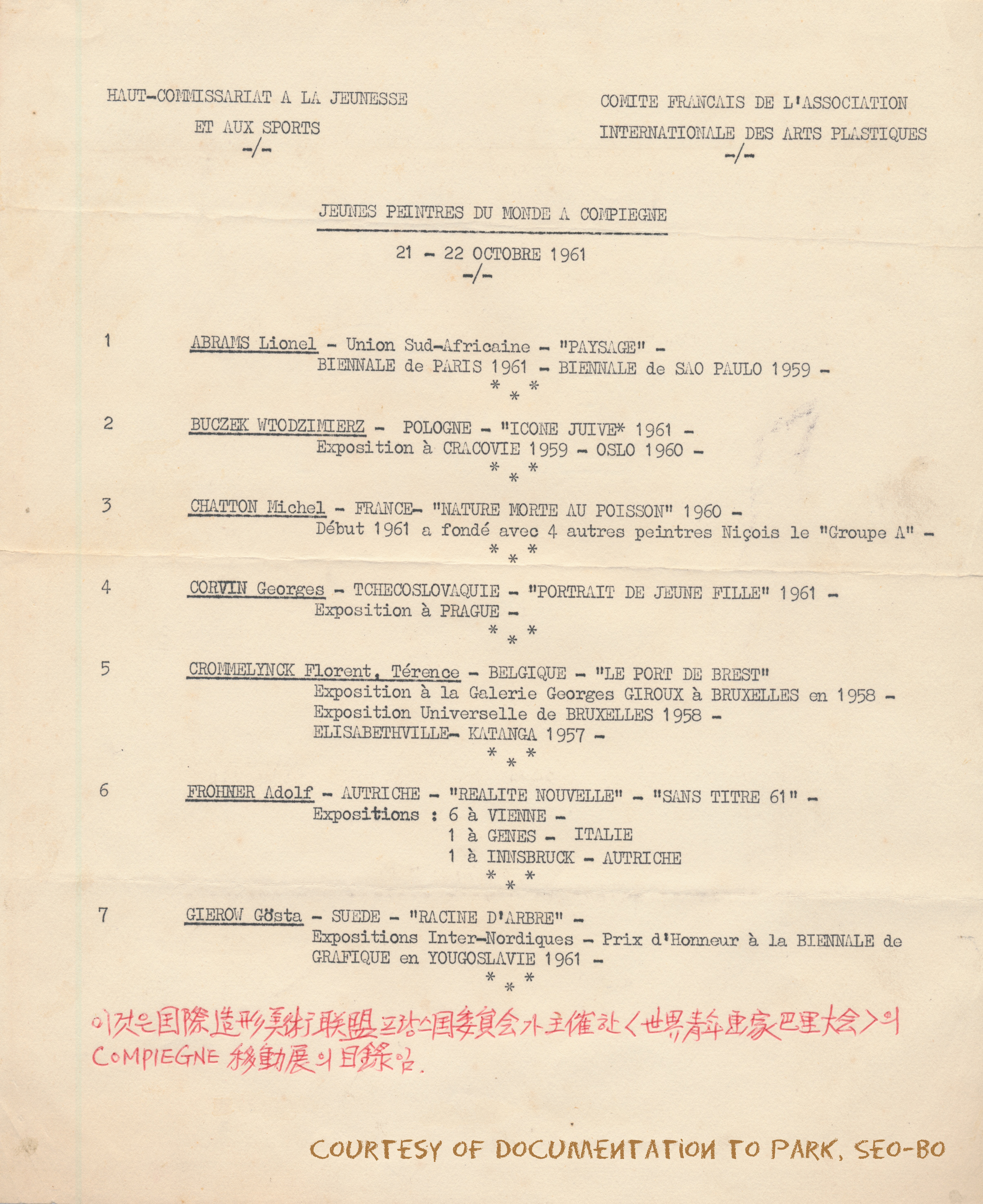 This is the first page of the list of the participants artists who submitted their work to the group exhibition of "Jeunes peintres du monde à Compiègne" held on October 21-22 in 1961. The exhibition was part of the residence program of "Jeunes peintres du monde à Paris" organized by the French Committee of International Association of Art and supported by UNESCO. The program was run from October 2 to October 28 in 1961, parallel with the 2nd Paris Biennial which started on September 28. This scanned list is provided by the daughter of Park Seo-Bo's with his consent. Park Seo-Bo is one and the Korean representative artist of the 27 artists from 24 countries.